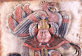 U.S. Customs officials in New York seize stolen Chinese sculpture dating from 960 A.D.